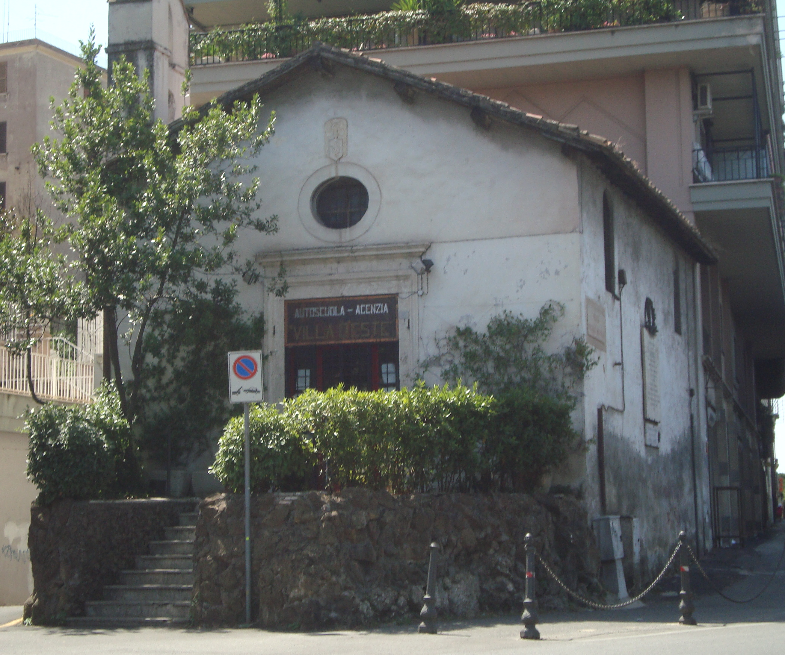 The Church Santa Maria dell'Oliva in Tivoli erected in 1512 and now deconsacrated